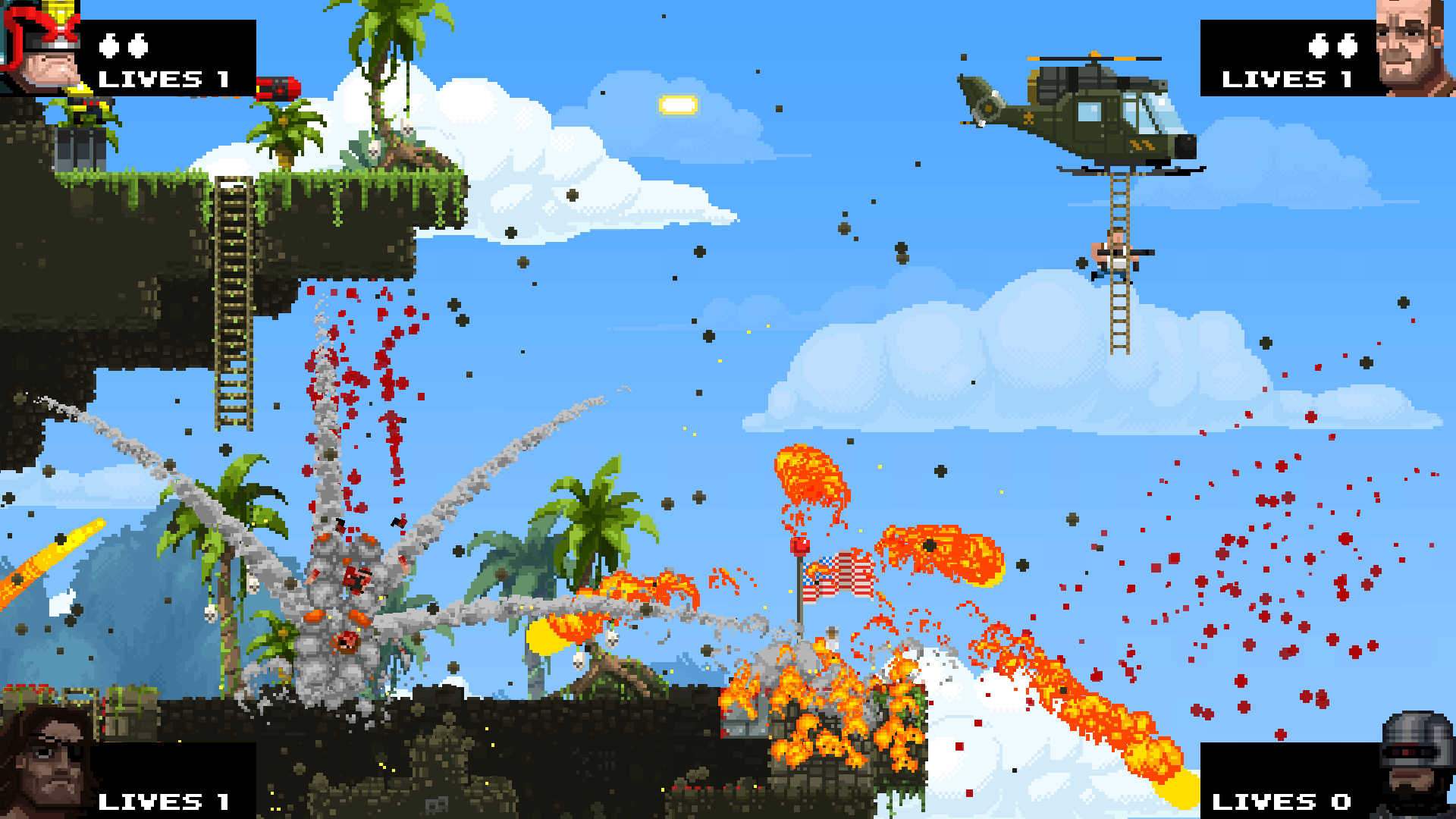 Player-character on the helicopter in Broforce video game